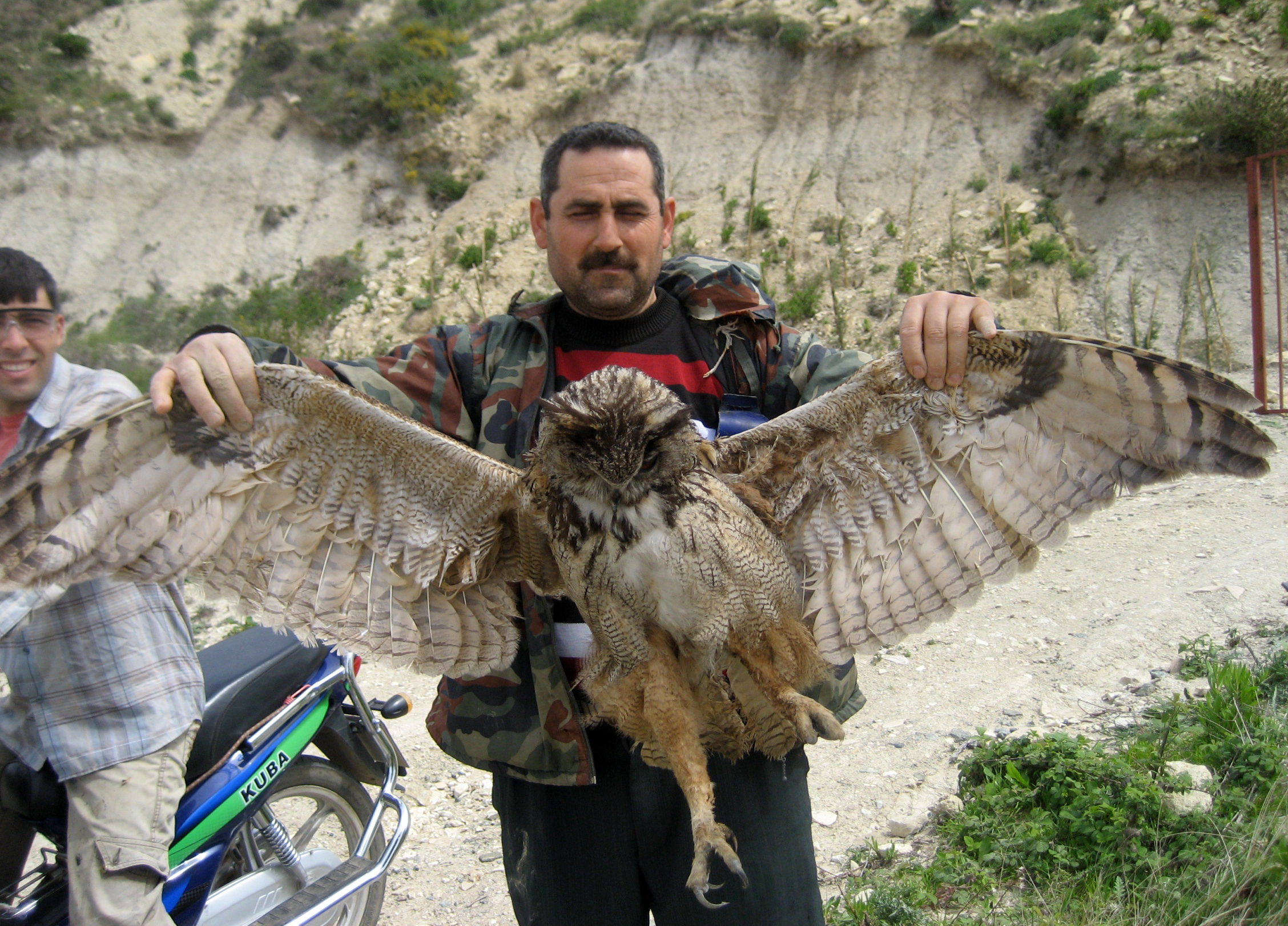 Dead Bubo bubo, found under a pole-mounted transformer. Near Çevlik, Hatay Province, Turkey